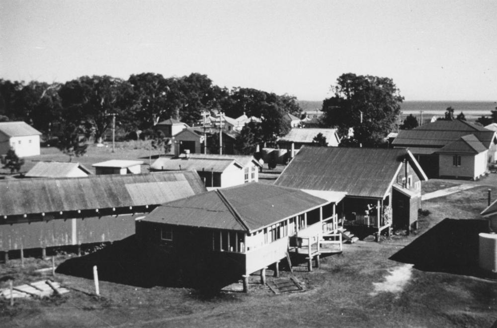 Creator: Unidentified. Location: Peel Island, Queensland. Description: Image photographed from the top of the water tower which used to stand immediately behind the hospital. Foreground, left to right: Male staff dining room, kitchen annexe, kitchen. The shadow to the right is that of the hospital. In the background, beyond the kitchen, is the female patients' compound. (Description supplied with photograph). View this image at the State Library of Queensland: Information about State Library of Queensland’s collection: You are free to use this image without permission. Please attribute State Library of Queensland.